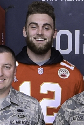 Airmen from Whiteman Air Force Base, Missouri pose for a group photo with players and cheerleaders of the Kansas City Chiefs football team on Nov. 6, 2018 at Whiteman AFB. The Chiefs visited Whiteman for a meet and greet where they signed autographs and took photos with members of Team Whiteman. (U.S. Air Force photo by Airman Parker J. McCauley)